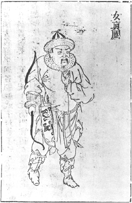 A late Ming-dynasty (1368–1644) woodblock print depicting a Jurchen tribesman.